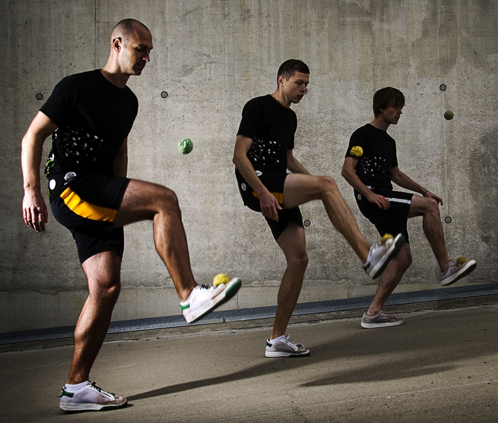 UniqueTrio synchronization